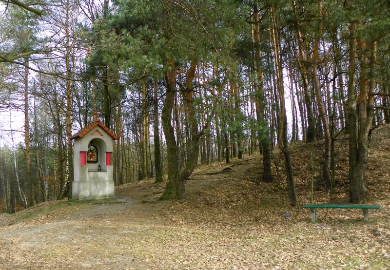 Golejow Way of the Cross 01